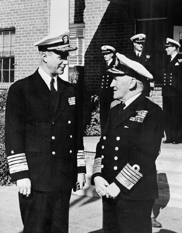 A brief chat is enjoyed by Admiral Jerauld Wright, U.S. Navy, Supreme Allied Commander Atlantic (left), and Admiral of the Fleet Sir Rhoderick McGrigor (right), Royal Navy, Britain's First Sea Lord, on the latter's visit to Supreme Allied Command Atlantic (SACLANT) headquarters in Norfolk.